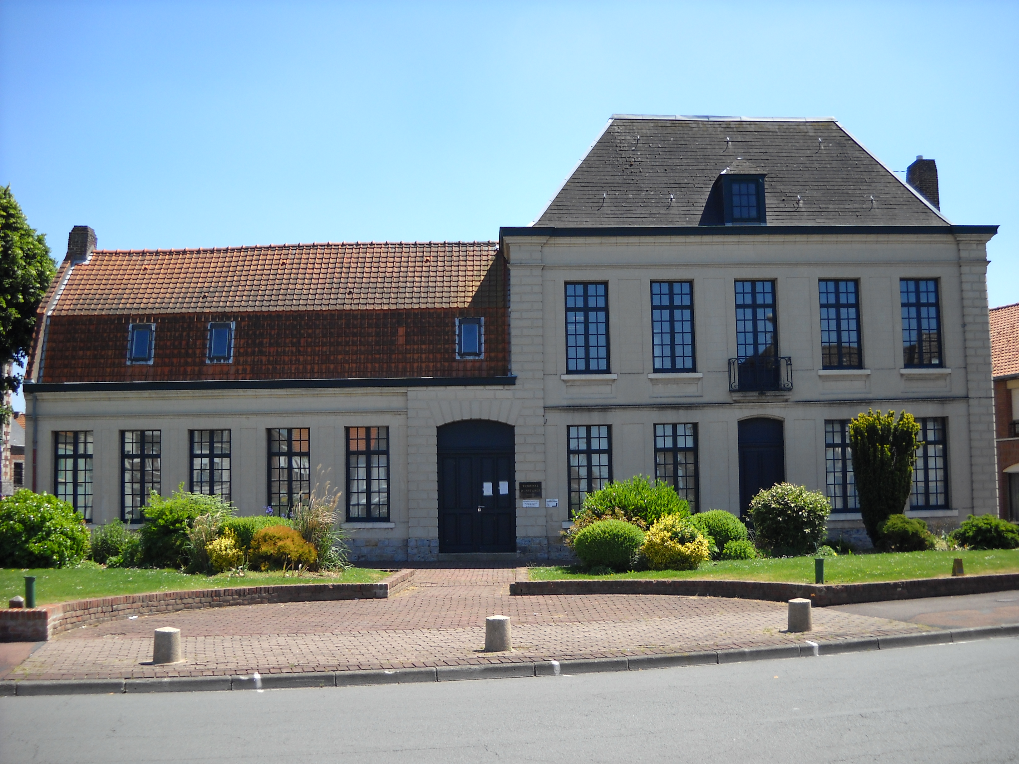 The courthouse of Carvin, Pas-de-Calais, France.